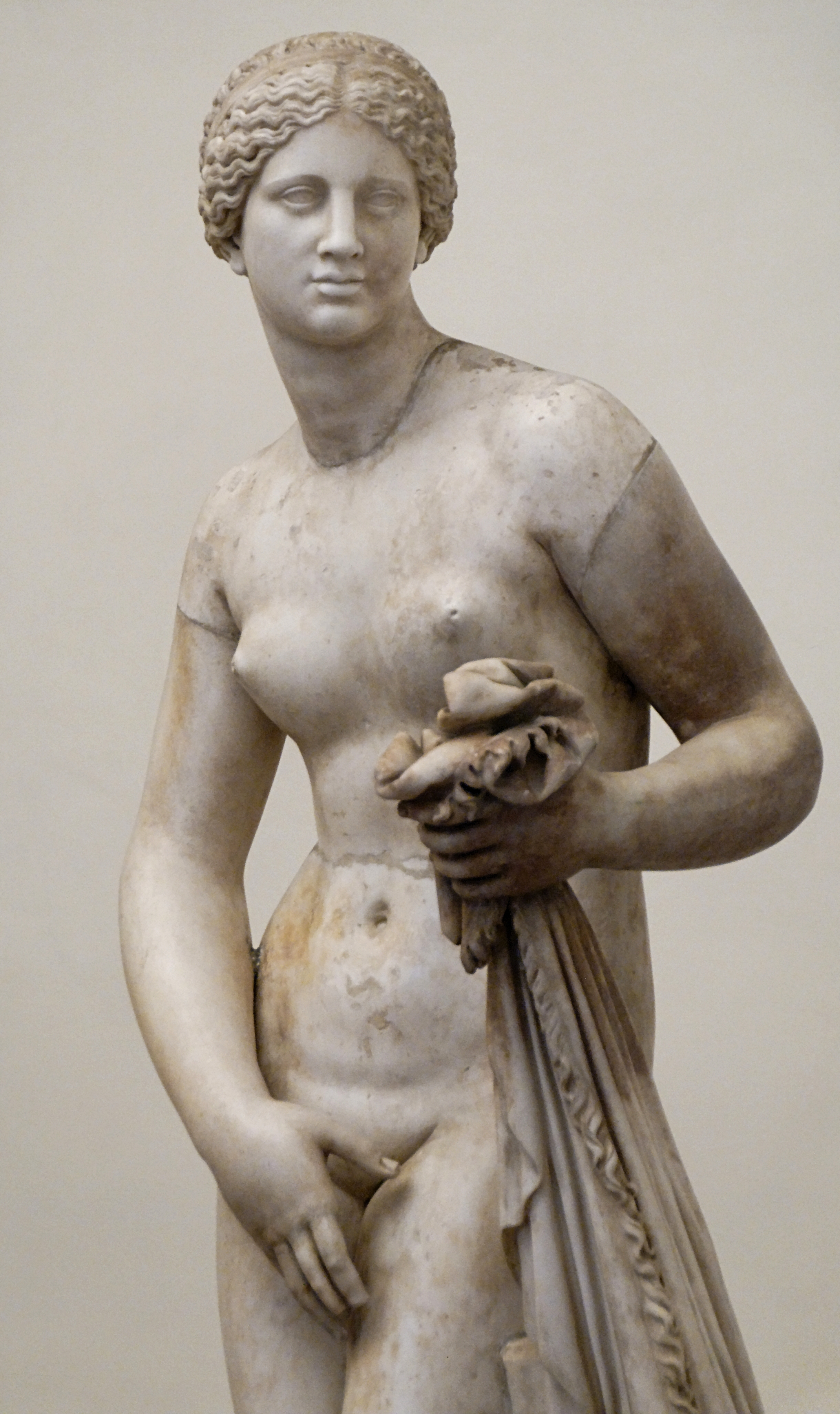 Cnidus Aphrodite. Marble, Roman copy after a Greek original of the 4th century. Marble; original elements: torso and thighs; restored elements: head, arms, legs and support (drapery and jug).